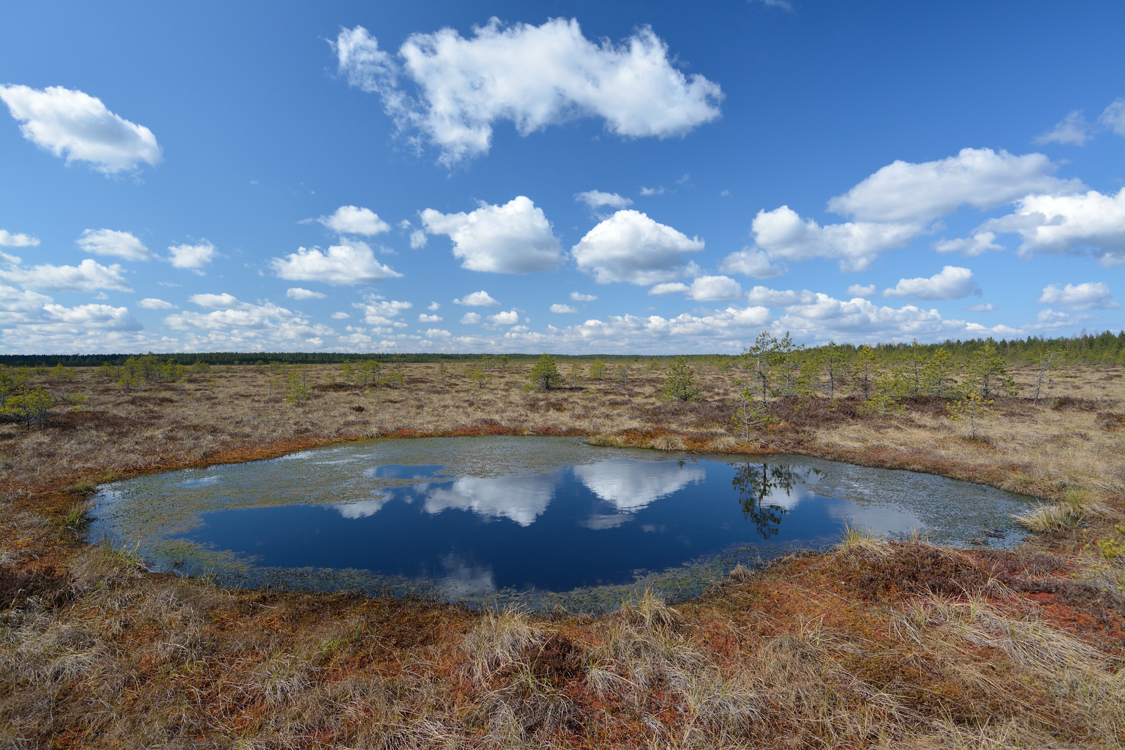 Bog pool in Koitjärve bog, Estonia.